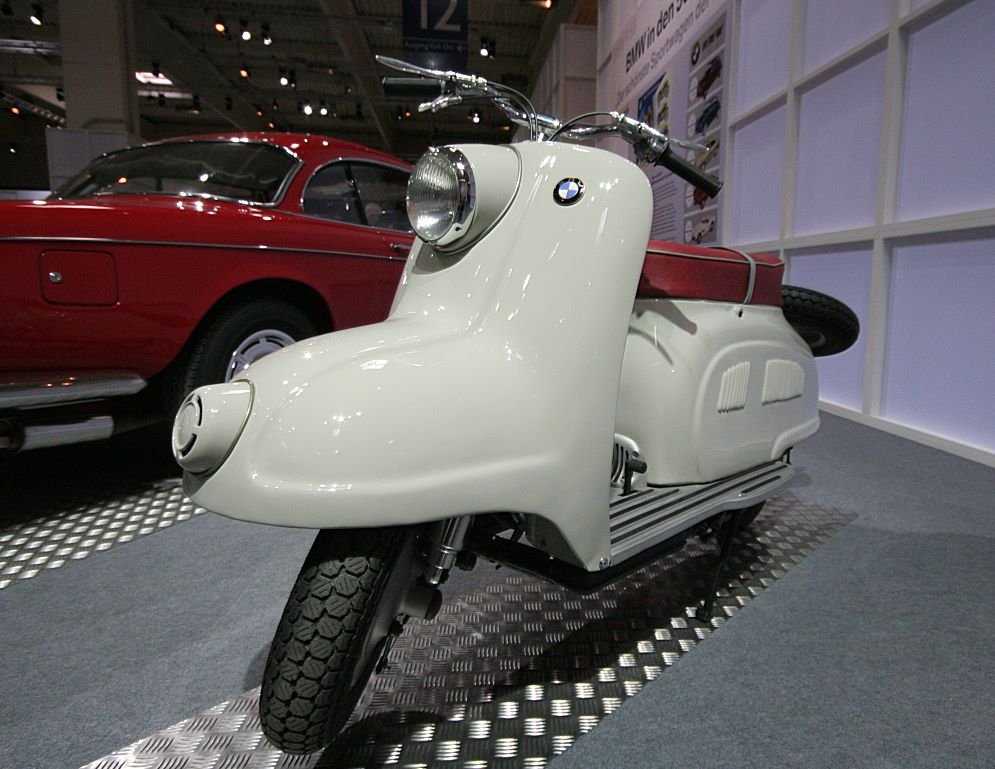 BMW R 10 Scooter Prototype, 1-cyl, 197 ccm, 7 PS, 1954